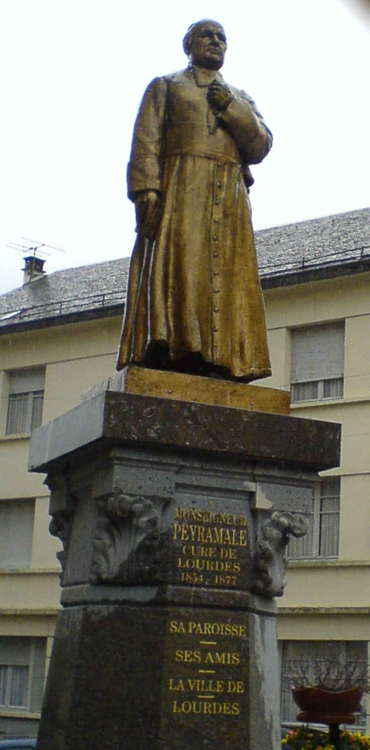 Statue of Abbe Dominique Peyramale outside the Parish Church in Lourdes, France